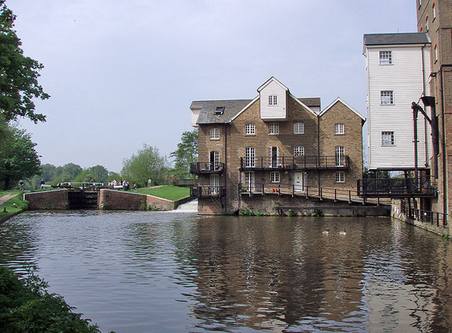 Coxes Lock and Mill, 2008. Compare with the 1974 version 480537.